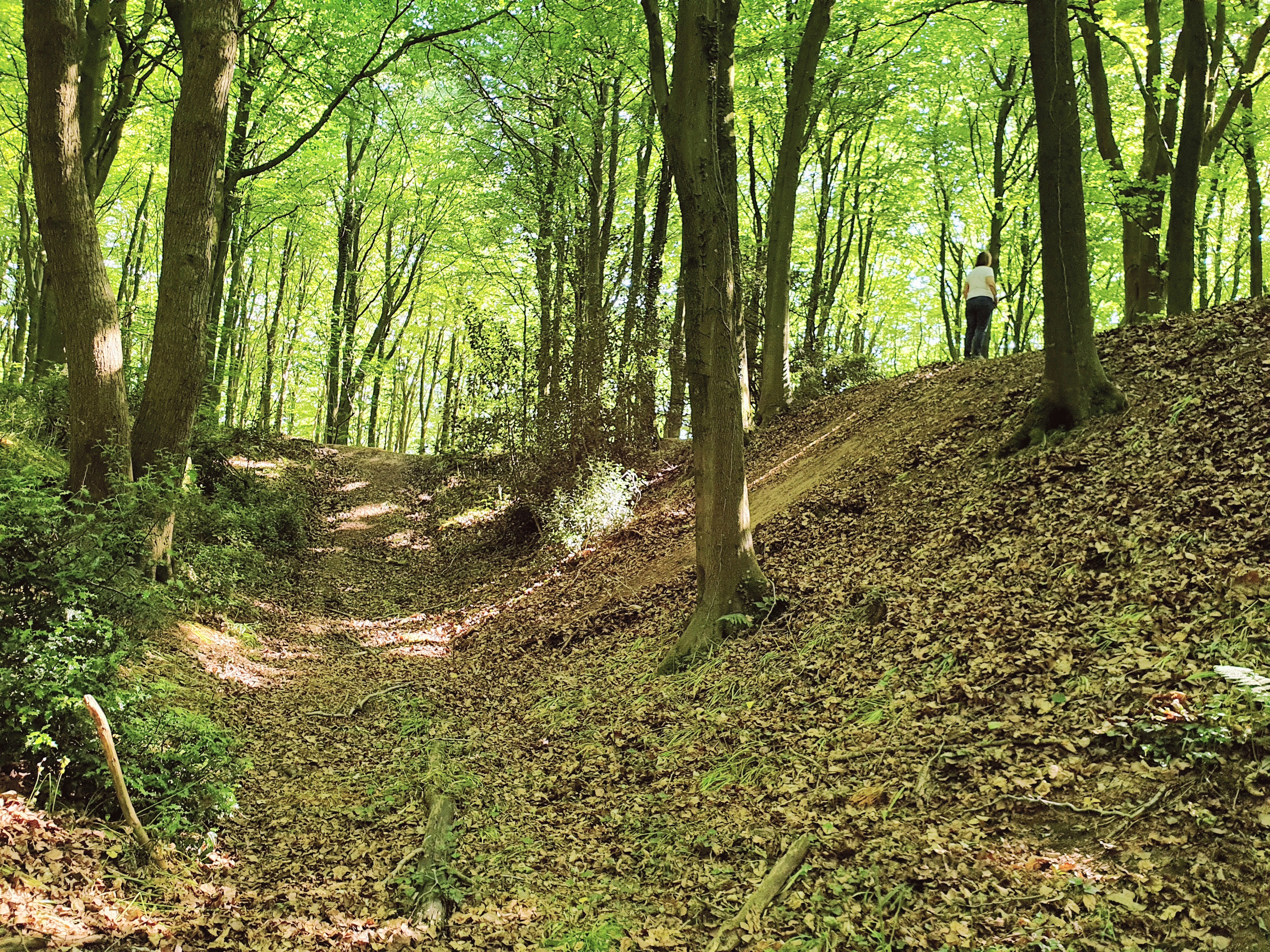 The ditch and bank at Roddenbury Hillfort. Taken on 30 May 2020.